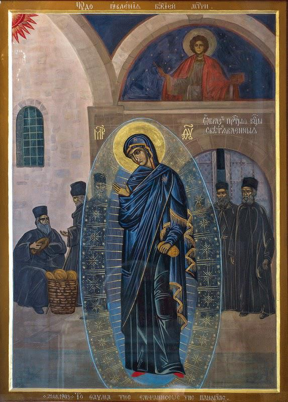 Icon Svitlynnoho image of the Blessed Virgin Mary